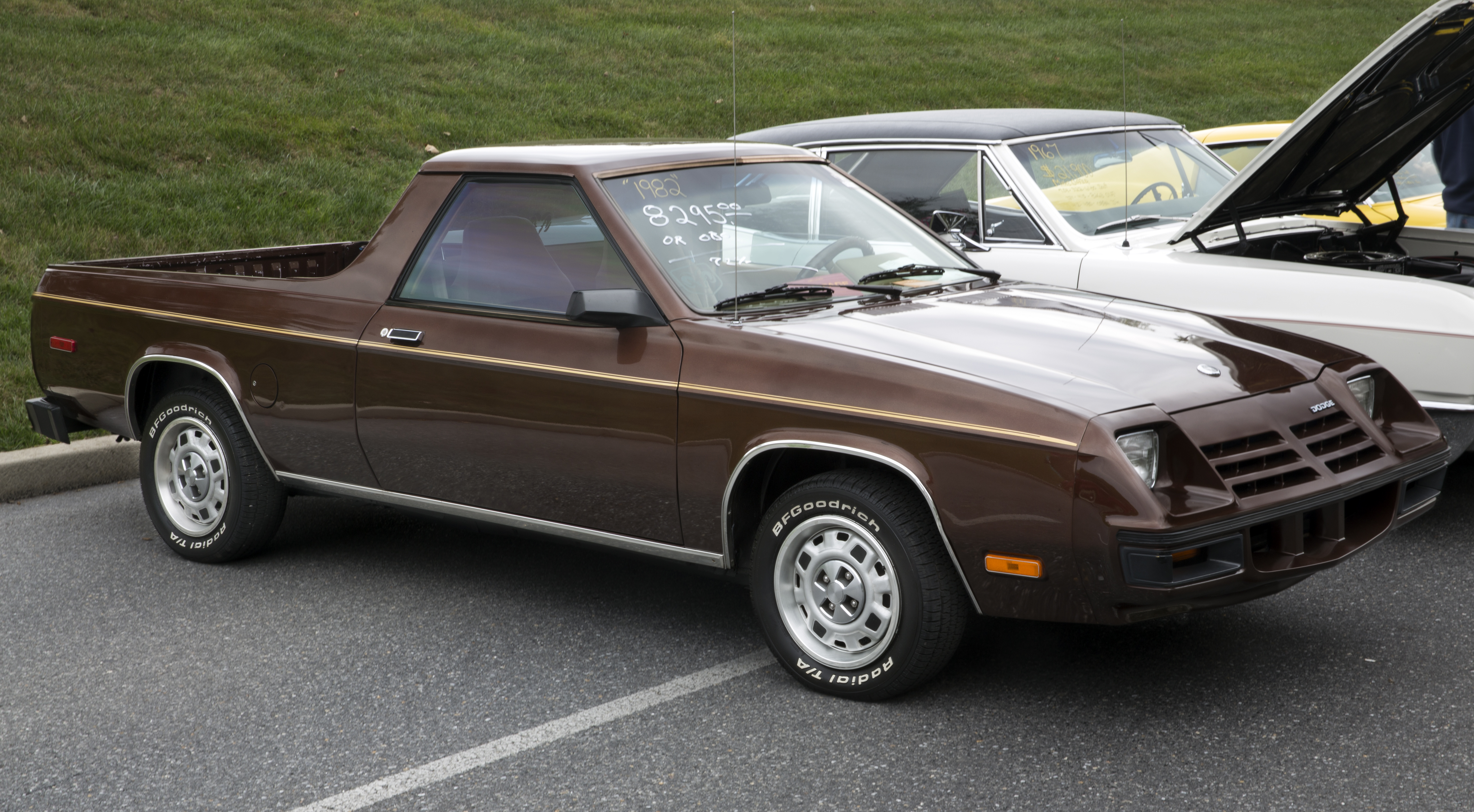 A 1982 Dodge Rampage (ZH28) in the show area at Hershey 2019. Painted Tan-Spice Starmist (VK8) with vinyl/cloth buckets. Owner paid for the three-speed slushbox and power steering, the 2.2-liter four and the stripes were included. Sold new in Bangor, PA. Built in Chrysler's Belvidere Assembly plant.